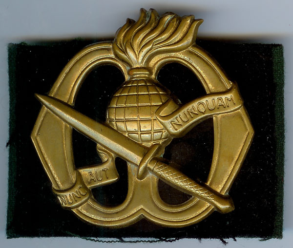 Dutch cap badge from the Korps Commandotroepen (Corps Commandotroops)